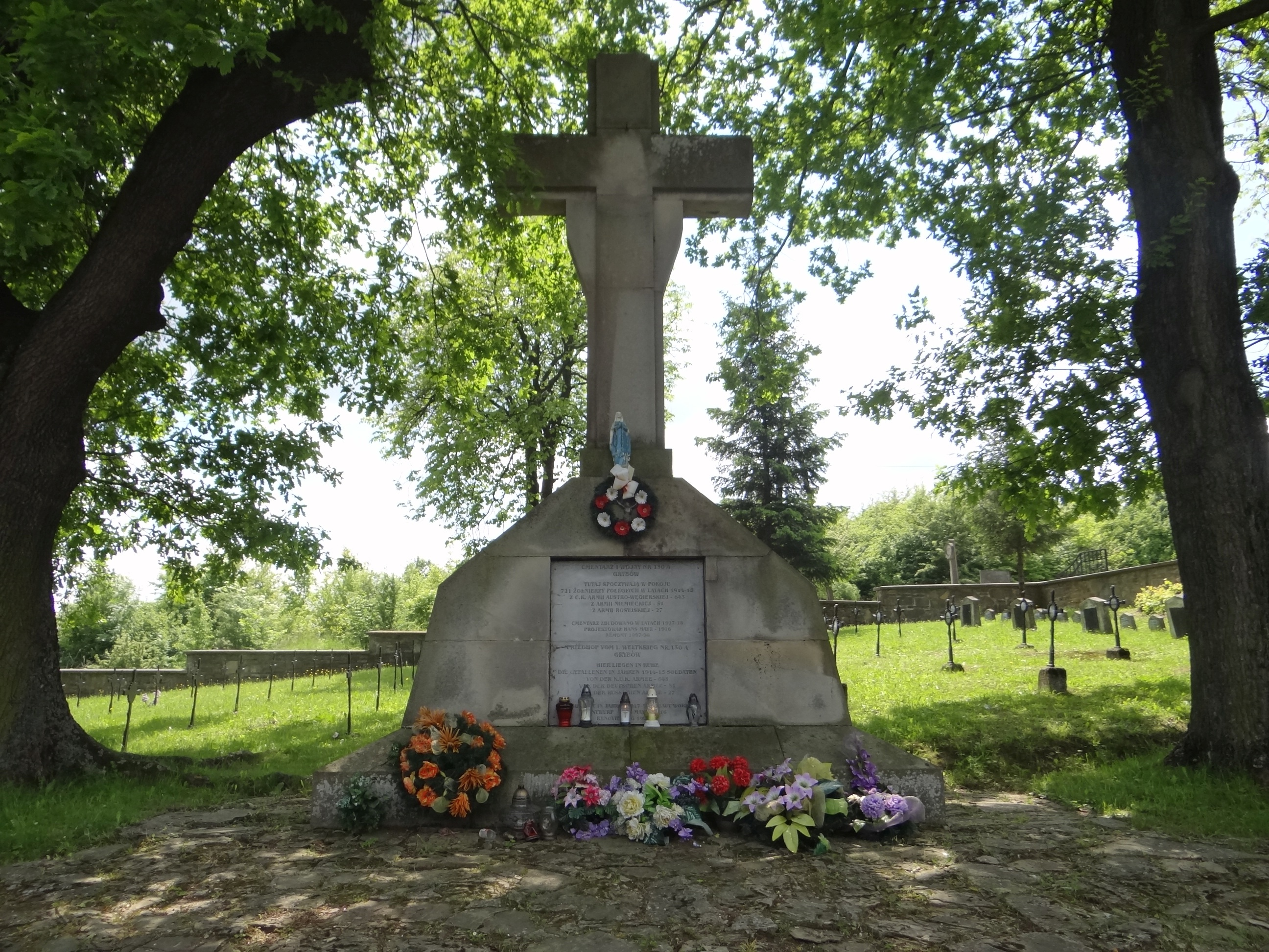 World War I Cemetery nr 130 in Grybów